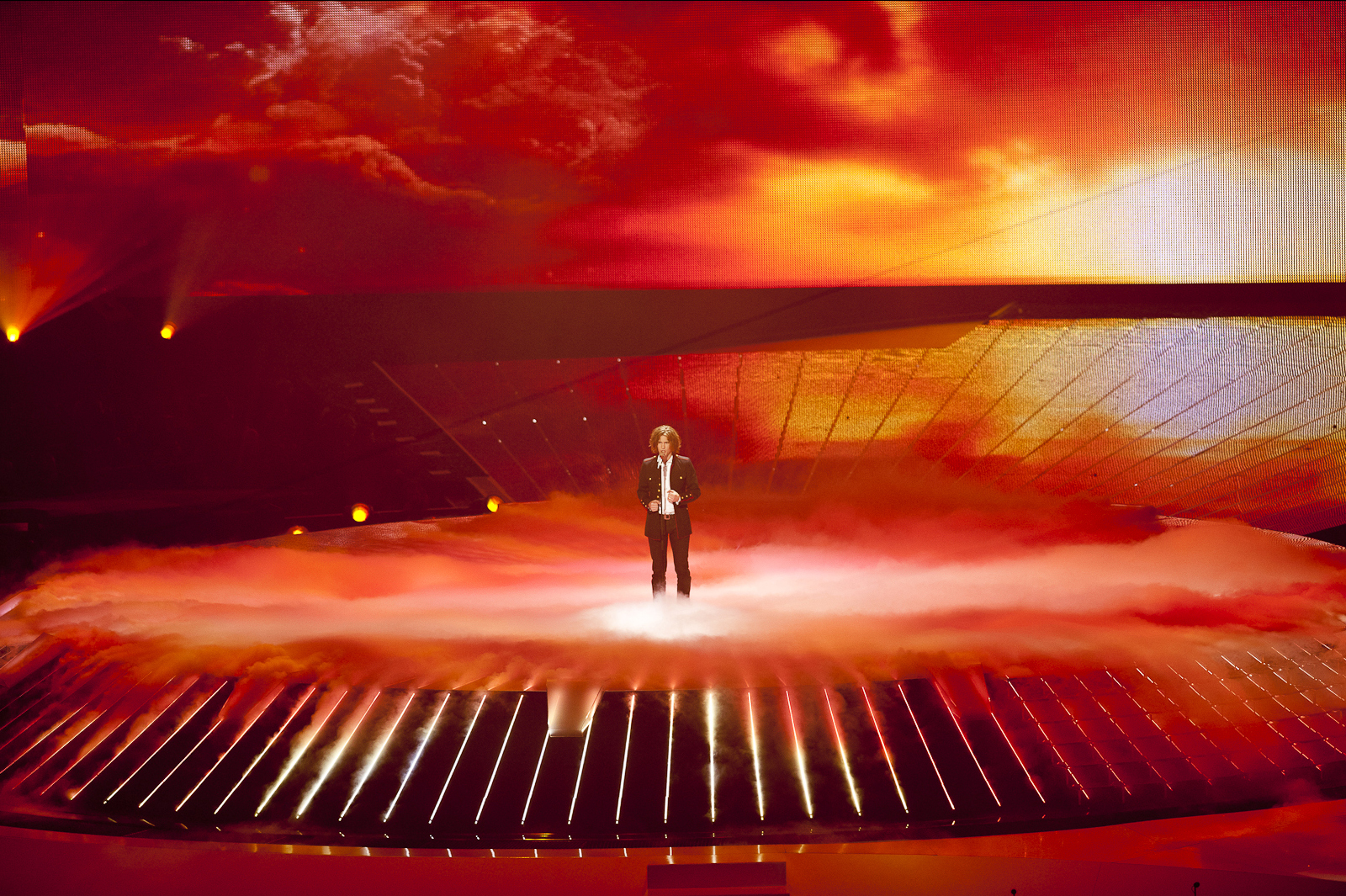 Amaury Vassili from France performing "Sognu" at Eurovision Song Contest 2011 in Düsseldorf